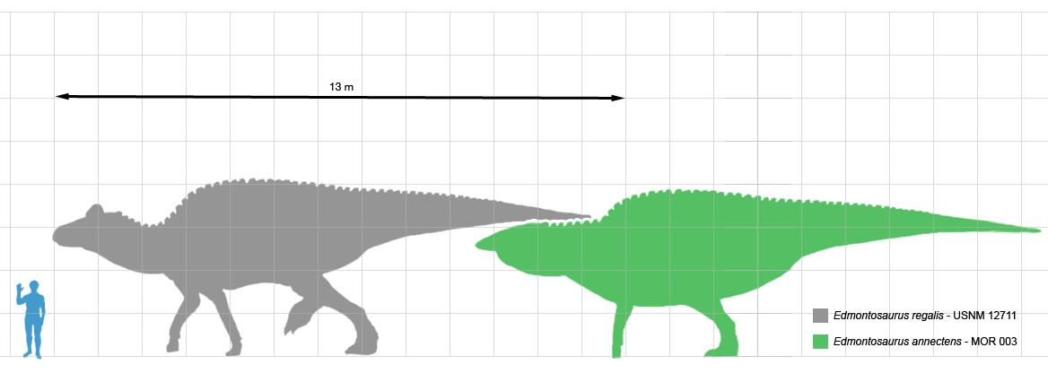 Scale diagram of the large adult specimens of Edmontosaurus regalis (MOR 003) and Edmontosaurus annectens (USNM 12711), compared in size with a human. Each grid section represents 1 square meter. Adapted from illustrations by Nobu Tamura and Matt Martyniuk. Length based on estimates found in: Lull, Richard Swann; and Wright, Nelda E. (1942). Hadrosaurian Dinosaurs of North America. Geological Society of America Special Paper 40. Geological Society of America. p. 225.